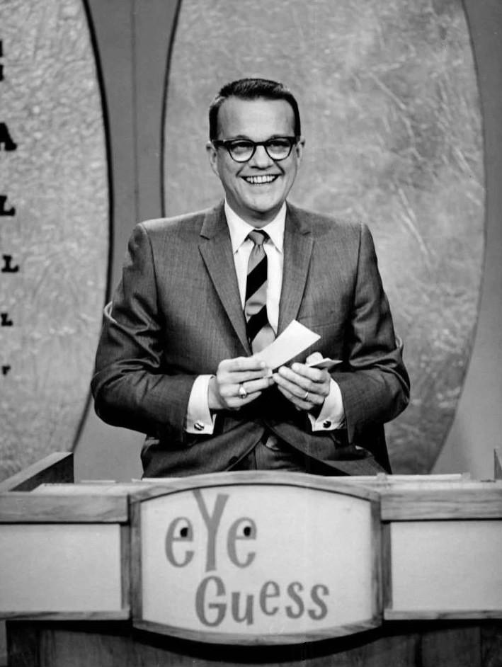 Photo of Bill Cullen as the host of the television program Eye Guess.